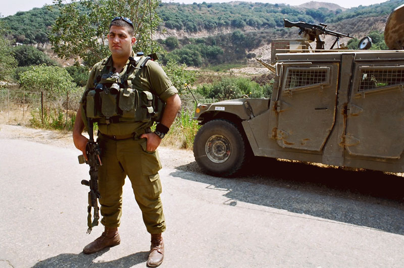 A Druze officer of the Israel Defense Forces' Herev (Sword) Battalion.